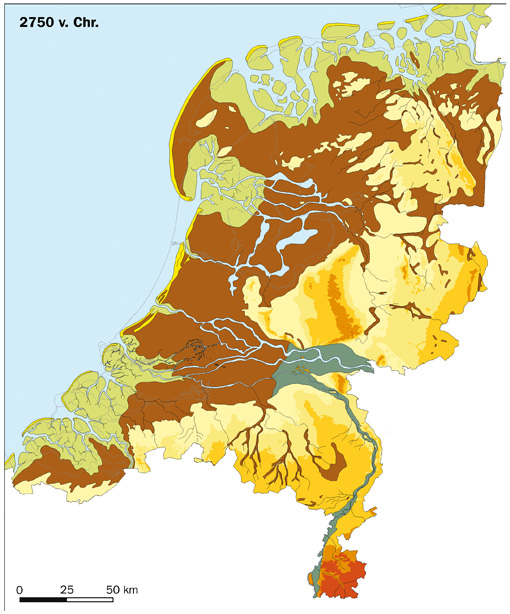 Palaeography of the Netherlands 2750 BC